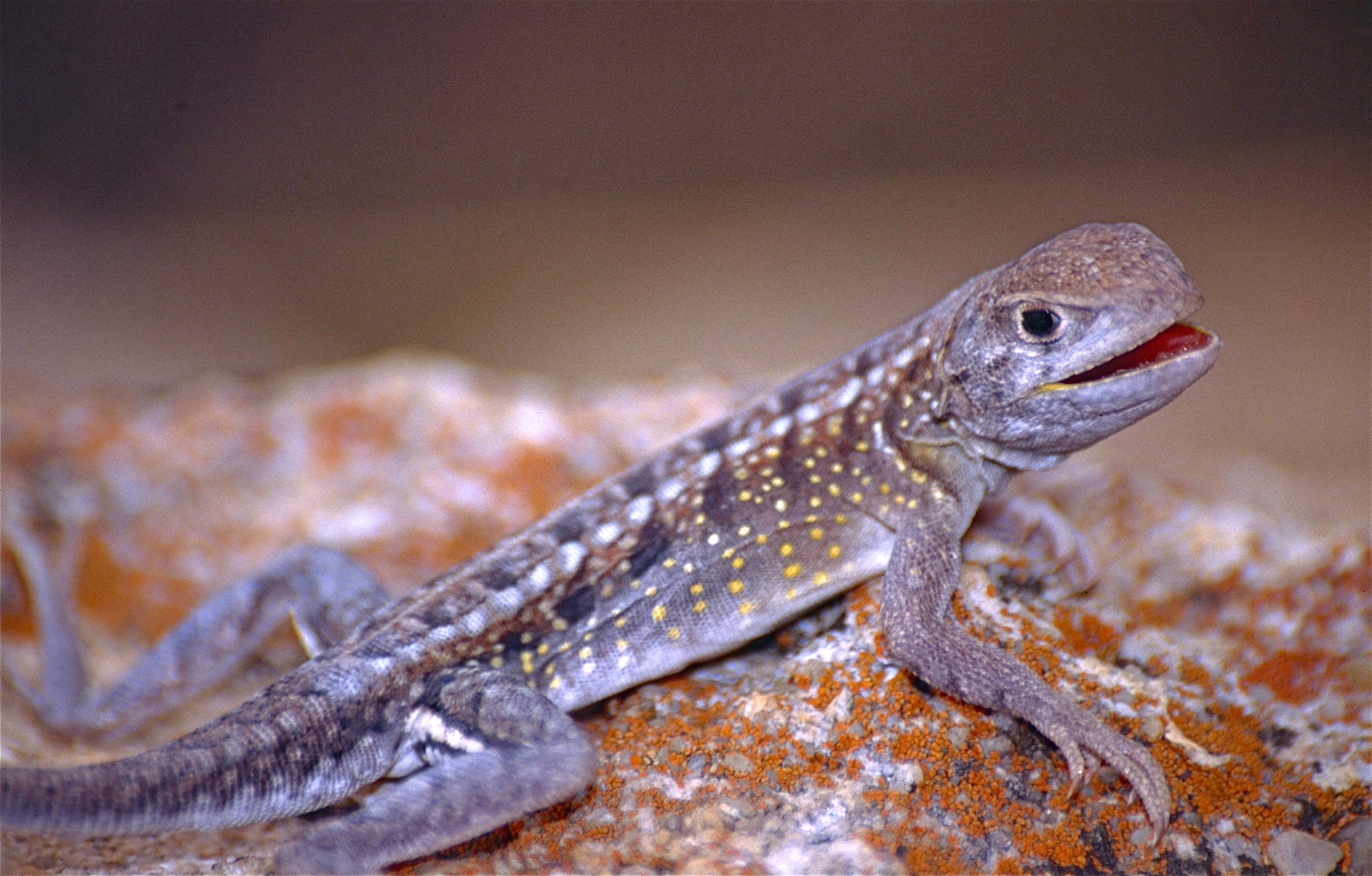 Isalo NP, MADAGASCAR Scanned Slide from 1998